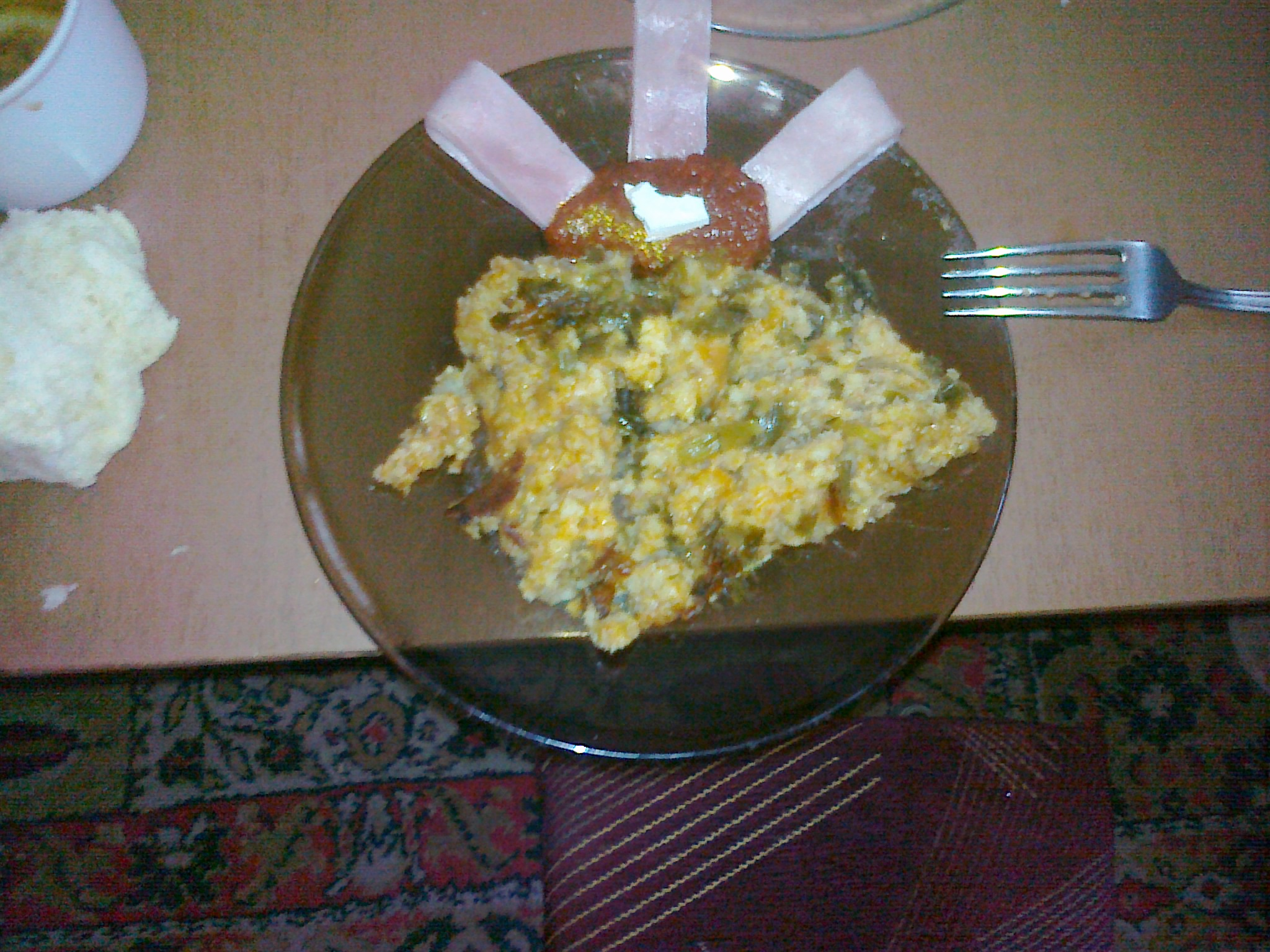 Rice with garnish